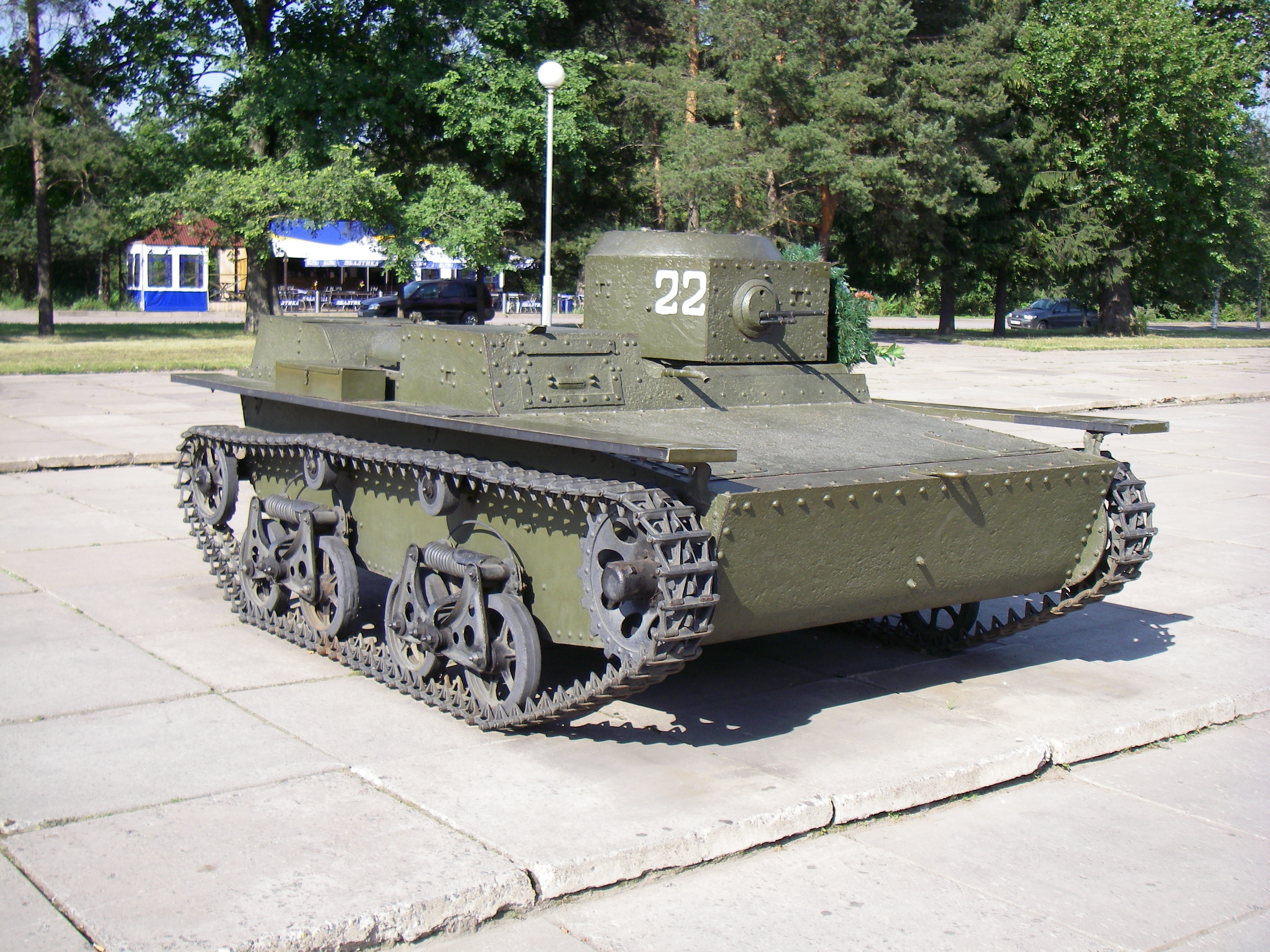 T-38 near museum-diorama «Breaching of the Blockade of the Leningrad» near Kirovsk